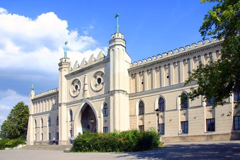 Lublin Castle - main entrance gate of the neogothic part of the building.